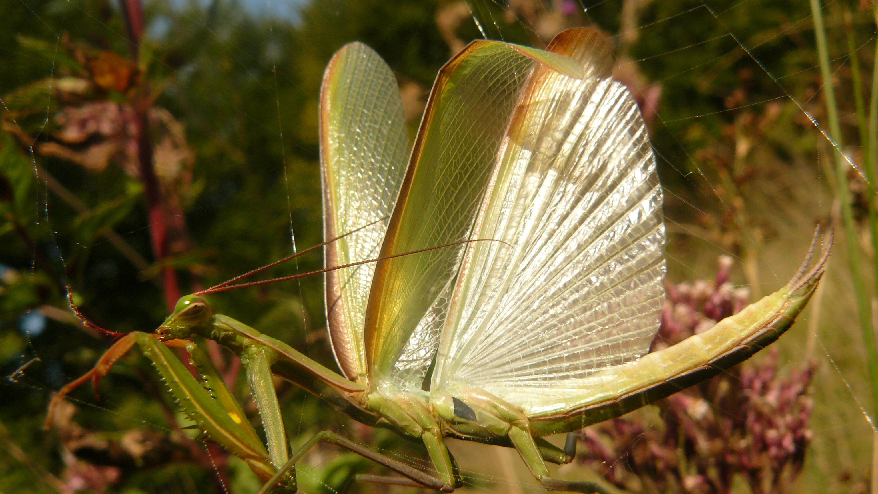 Adult male Praying mantis (Mantis religiosa) taken in the nets of a cobweb, (approximately 400m of height) in Saône-et-Loire (71, France) in September, 2008